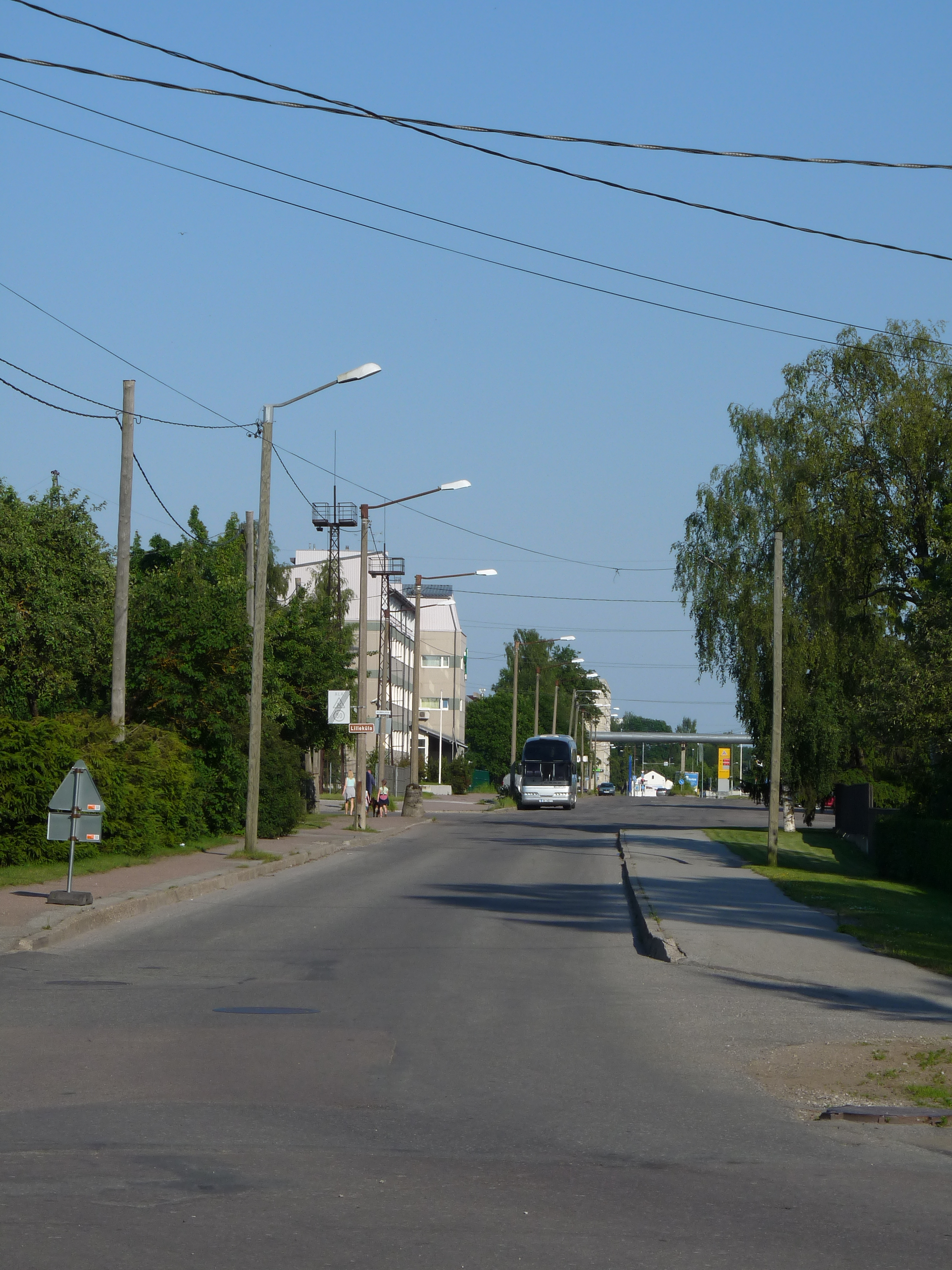 Marja street in Tallinn, Estonia